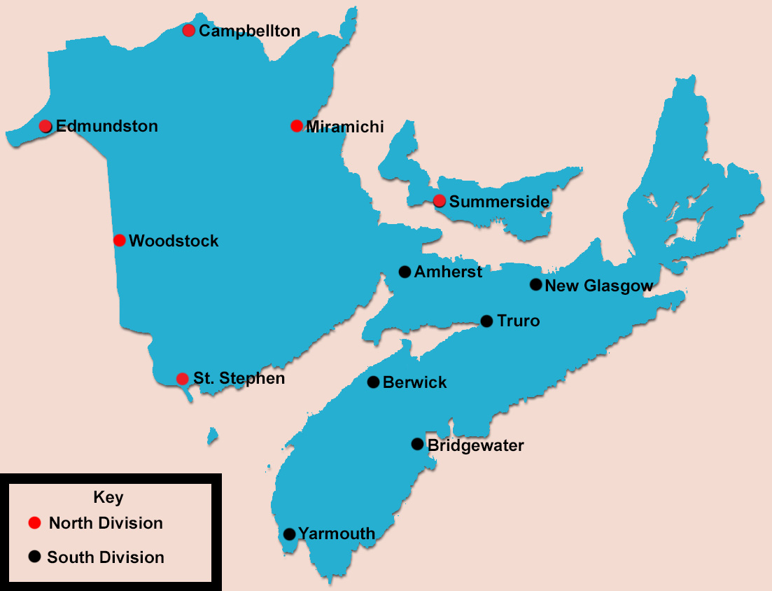 Will be used to display the locations of the 12 Maritime Junior A Hockey League teams